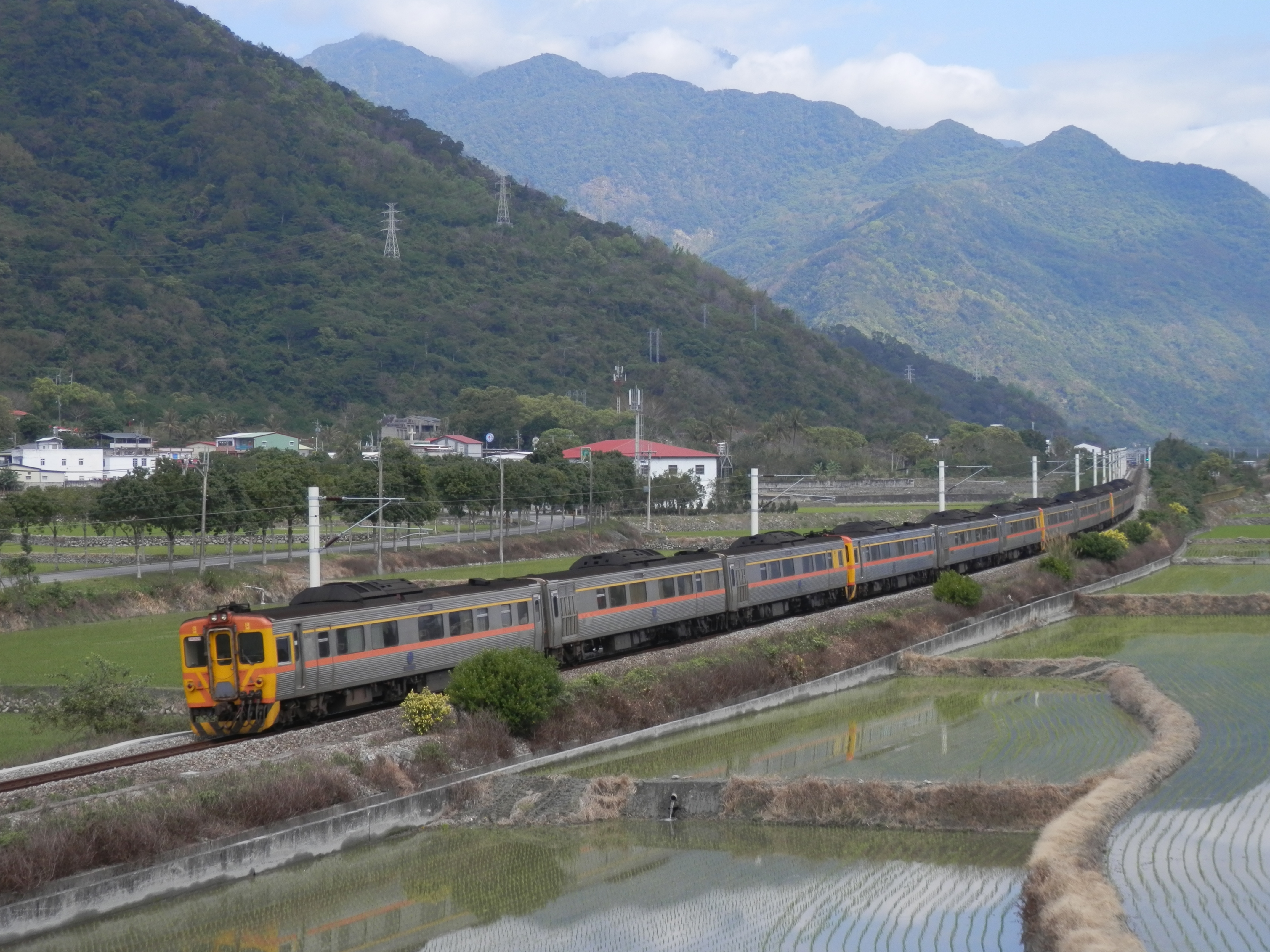 TRA Tze-Chiang Ltd-Exp Type DMU DR2800 at Taitung Line between Haiduan Station and Guanshan Station